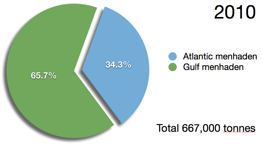 Global capture of all menhaden species in 2010 as reported by the FAO. Based on data sourced from the relevant FAO Species Fact Sheets